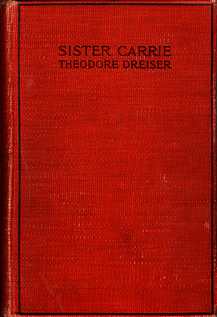 Book cover of novel Sister Carrie